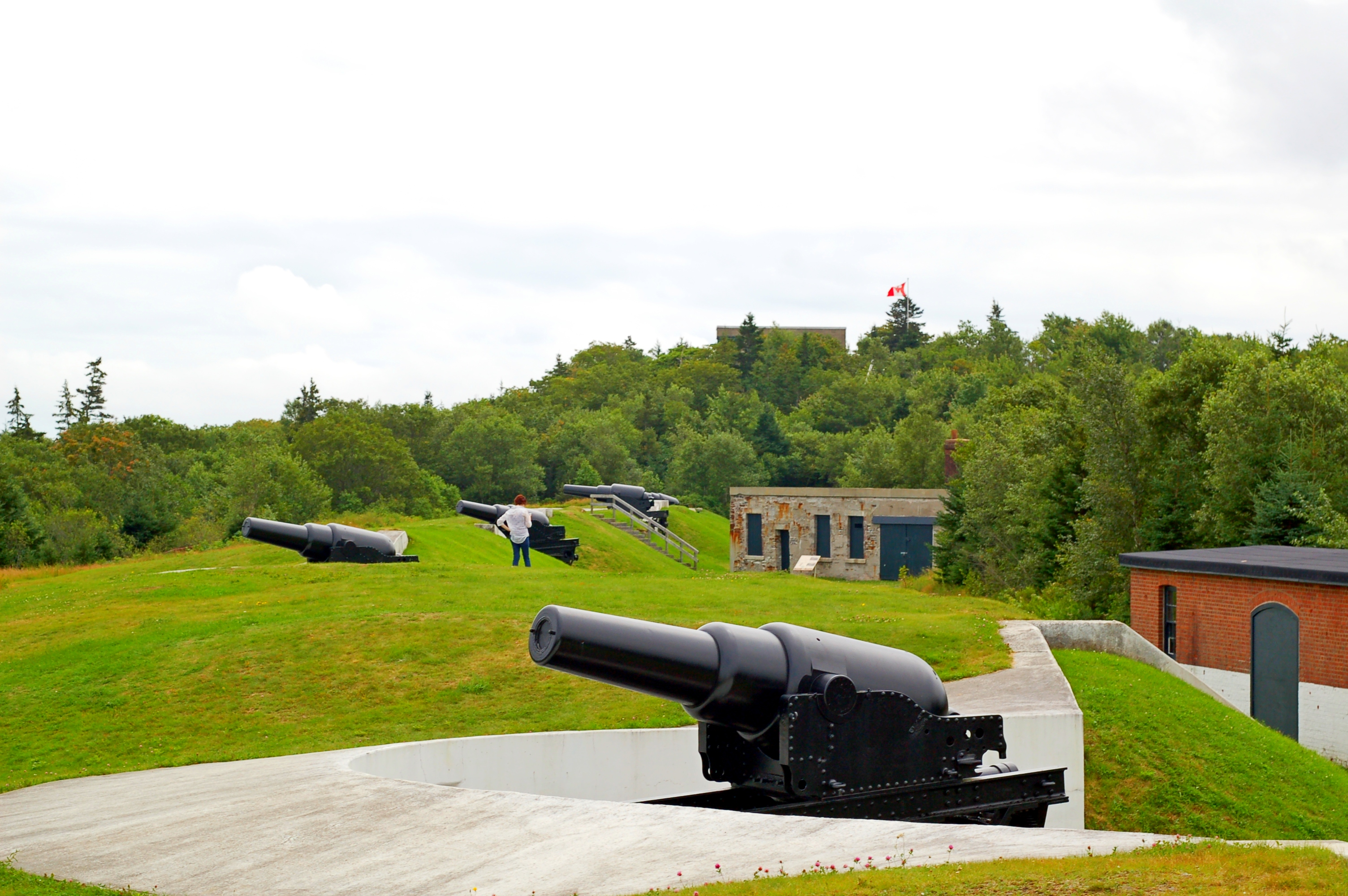 Battery and Magazine YorkRedout